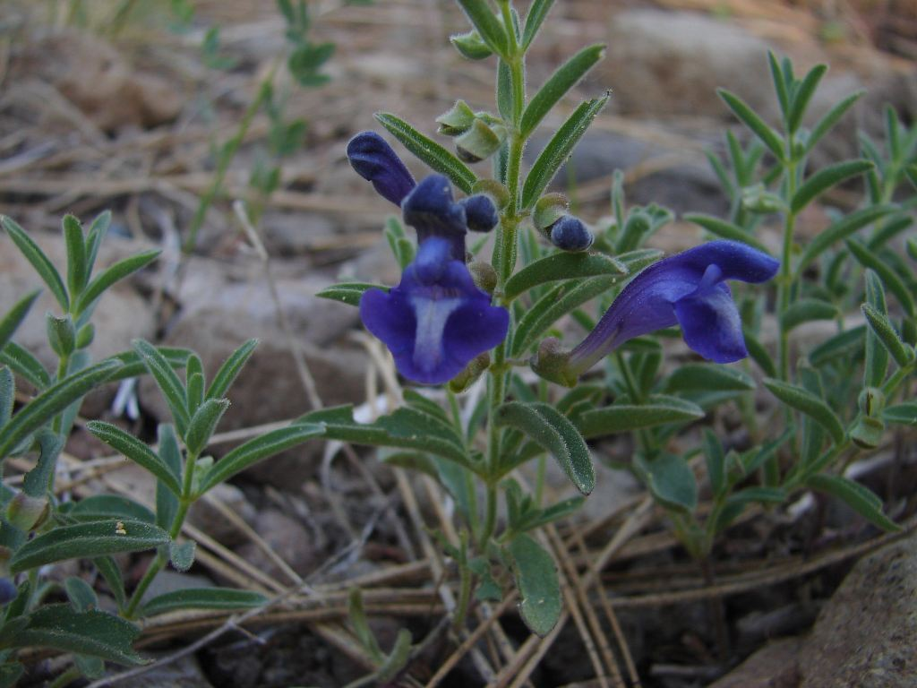 Dwarf Skullcap at Mineral Ball Field in Lassen Volcanic National Park, California, USA